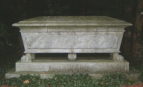 the grave of the famous major Franz Adickes of Frankfurt/main/germany